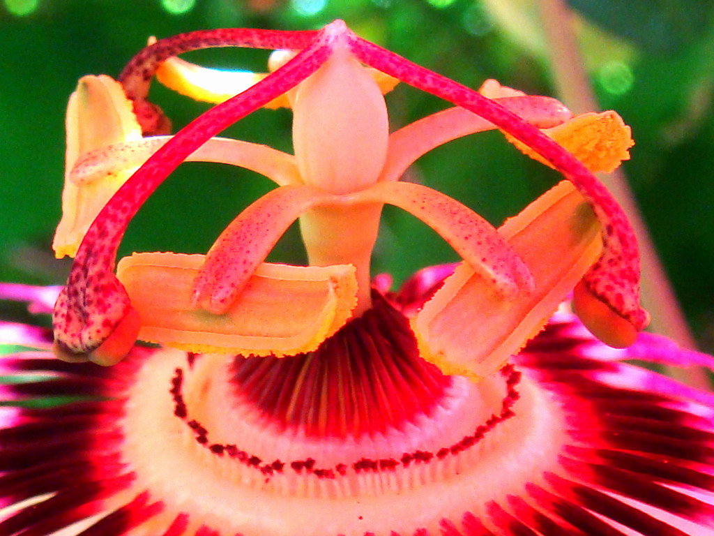 I planted this climber about 5 years ago and it's been at war with our wisteria for some time. The photo has a reddish cast as I took the photo shaded by our garden parasol but it does show the detail nicely.